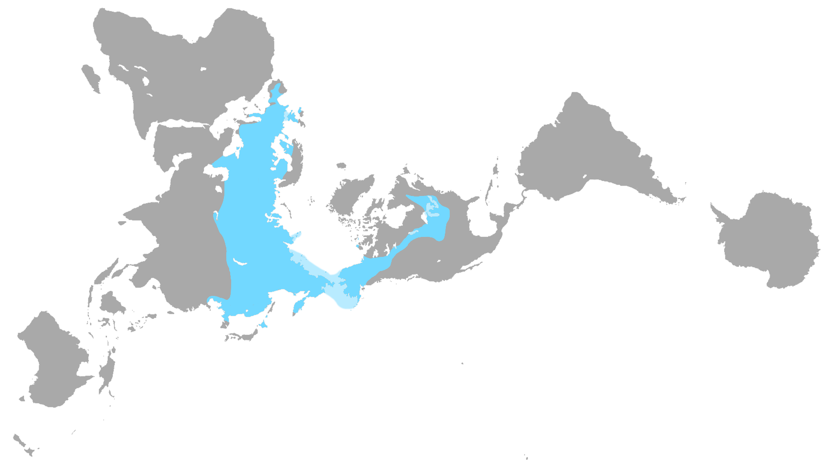 Biogeographic distribution of Mammuthus primigenius in the Late Pleistocene inferred from discovered fossil remains. Note the lighter blue regions were land during the Late Pleistocene. Adapted from Álvarez-Lao, et al. (2009).[1]